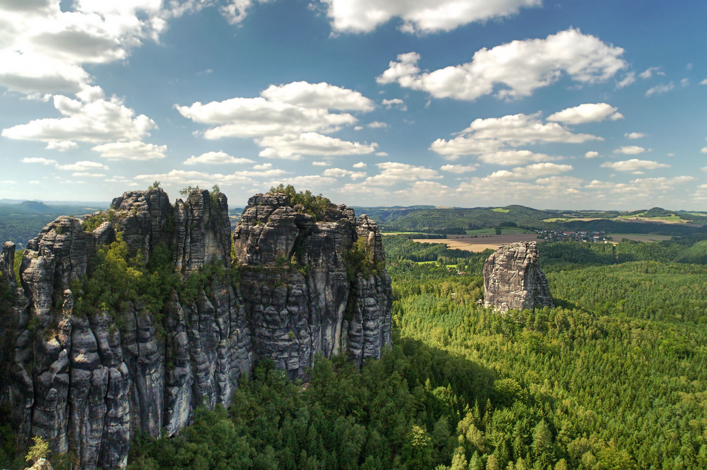 The Schrammsteine, a chain of sandstone rocks in the Elbe Sandstone Mountains and the Falkenstein near Bad Schandau, Saxony, Germany